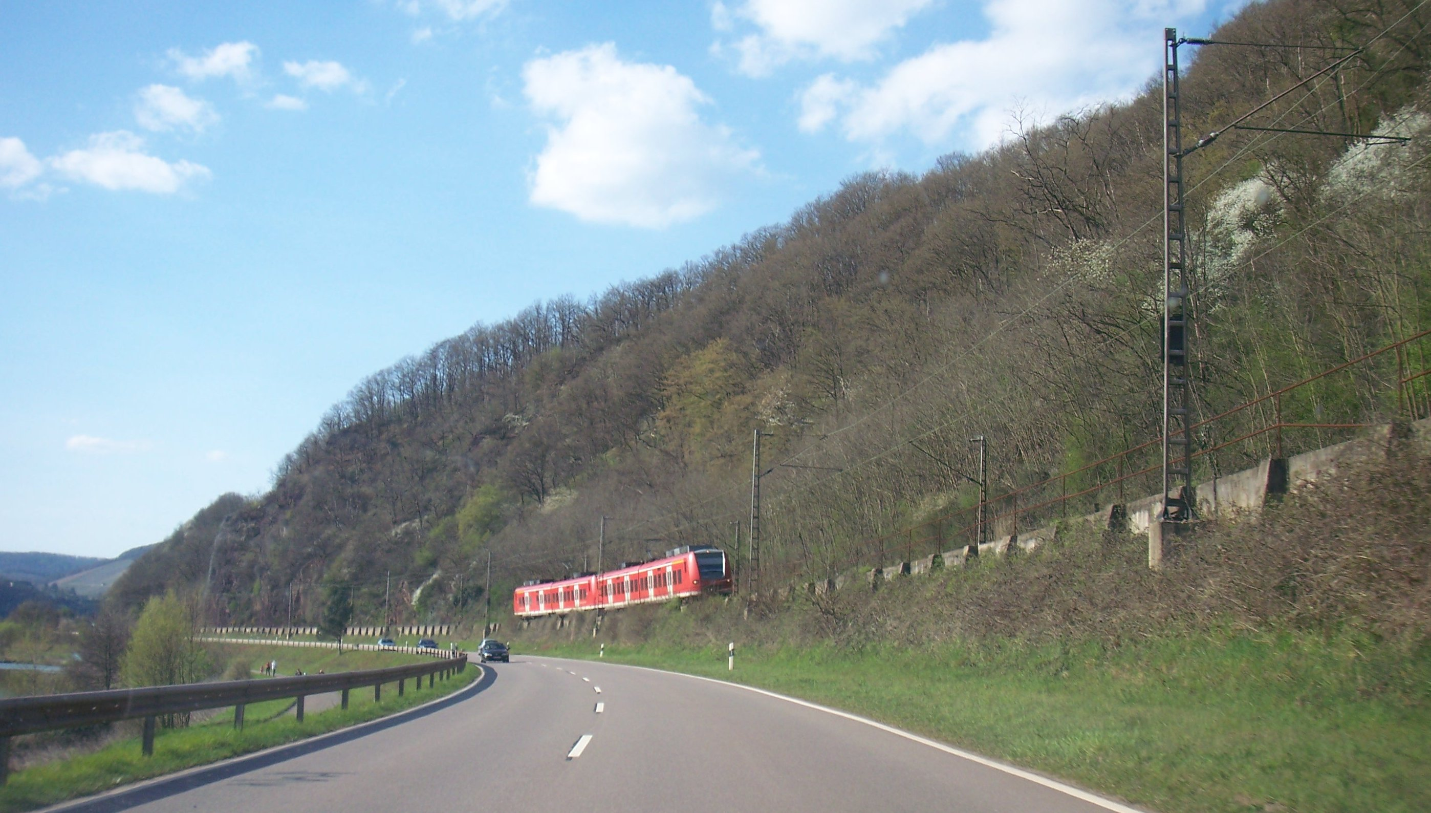 The RE 23045 on Saarstrecke between Saarburg and Serrig, Rhineland-Palatinate, Germany.